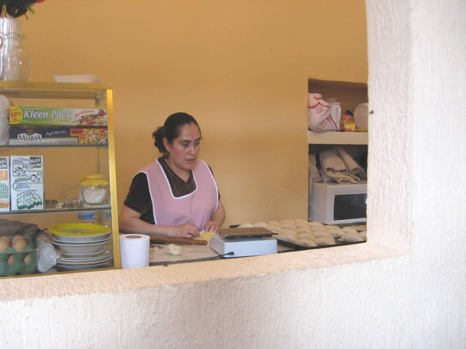 Woman preparing pastes in Pastes Tejada located in Real del Monte Hidalgo State Mexico